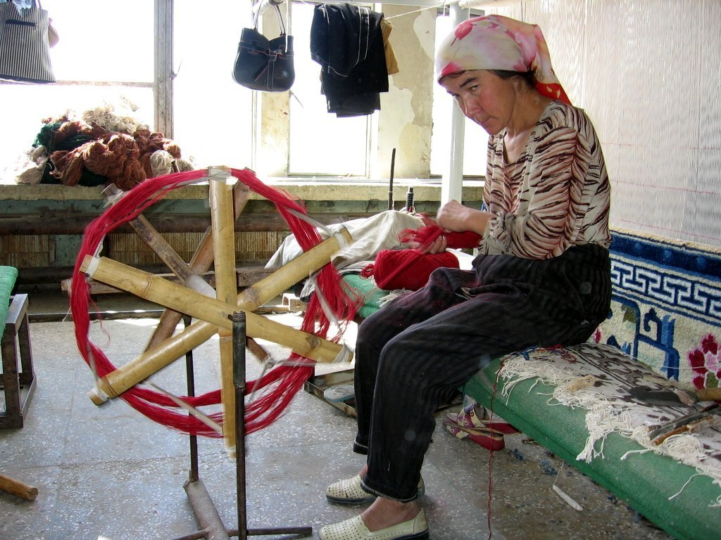 Khotan (Hotan / Hetian) is an oasis city in the Xinjiang Uygur Autonomous Region of the People's Republic of China. Carpet factory.